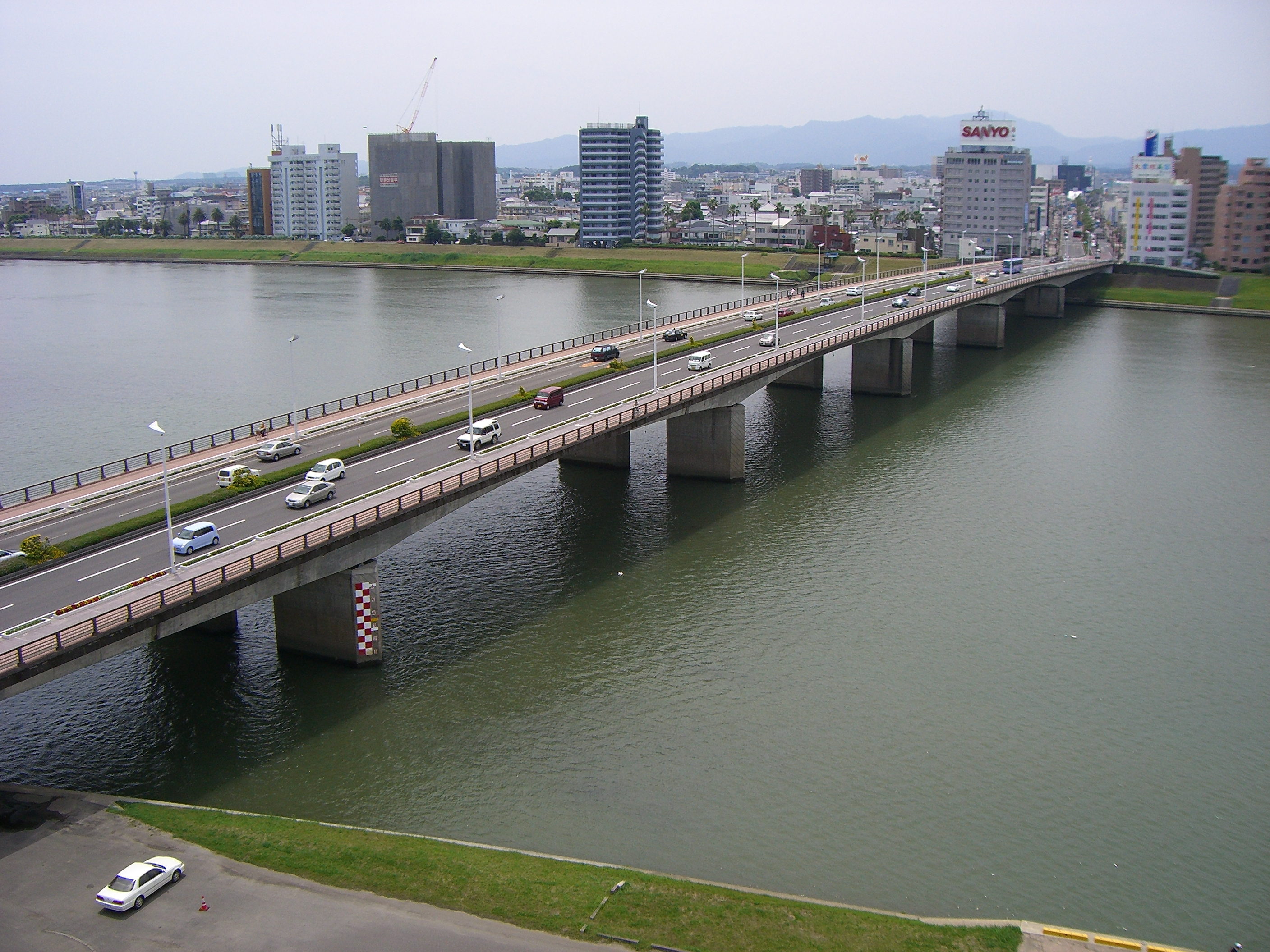 Tachibanabashi-bridge in Miyazaki, Japan.